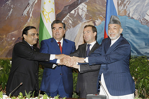 DUSHANBE. With President of Pakistan Asif Ali Zardari, President of Tajikistan Emomali Rahmon and President of Afghanistan Hamid Karzai (left to right).